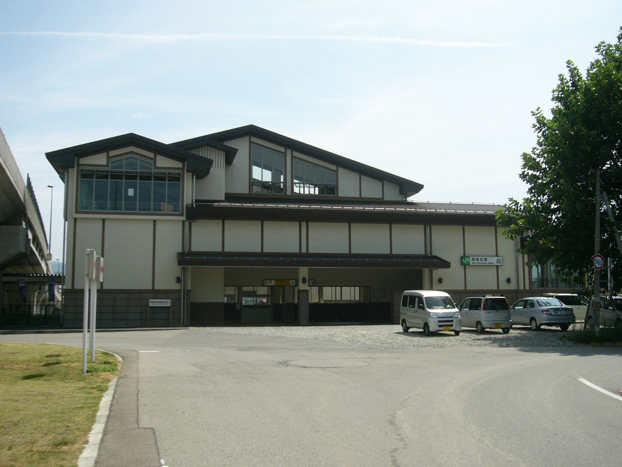 Nishi-Wakamatsu Station (West Entrance)